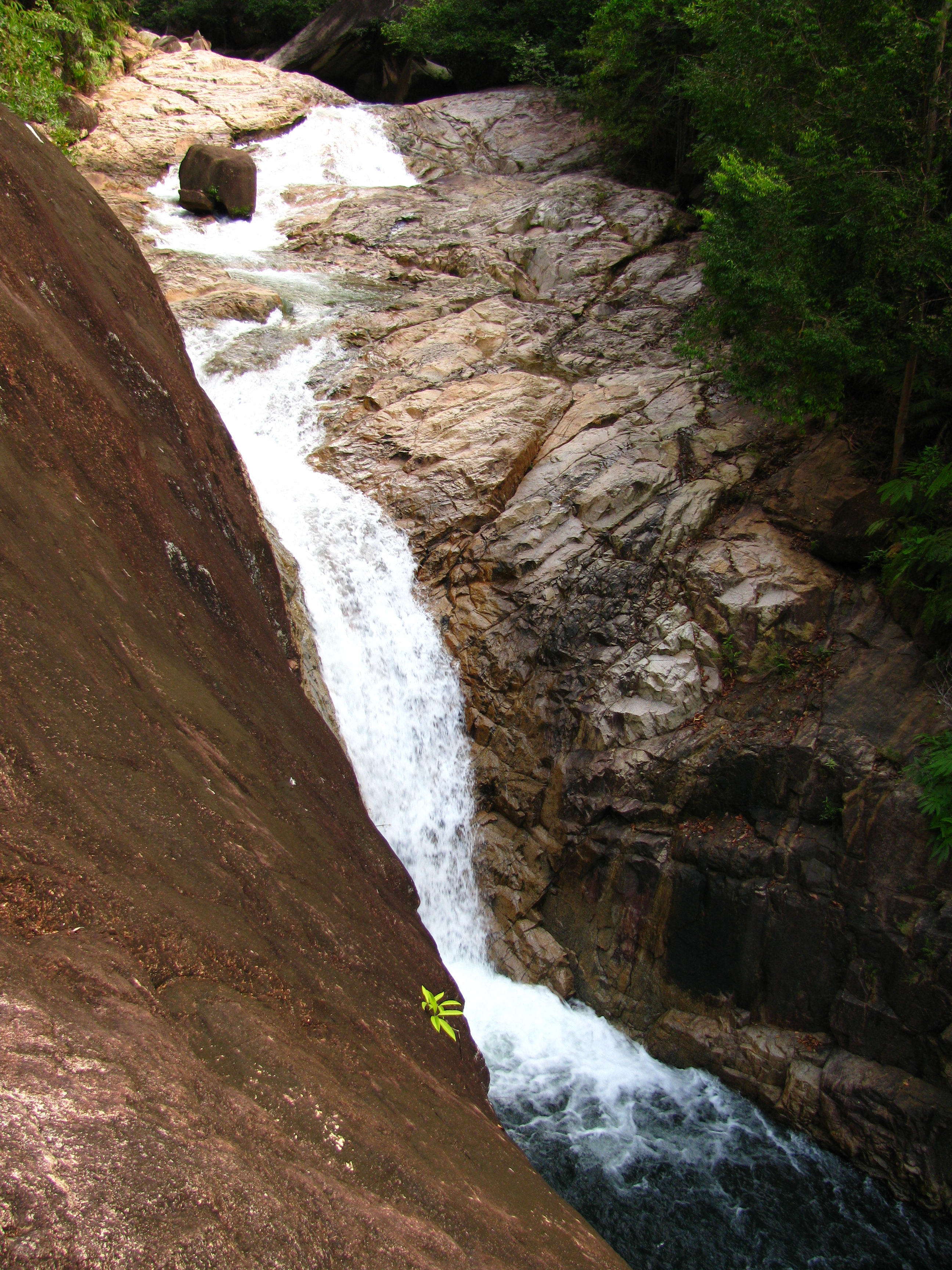 Berkelah Falls, fifth tier.